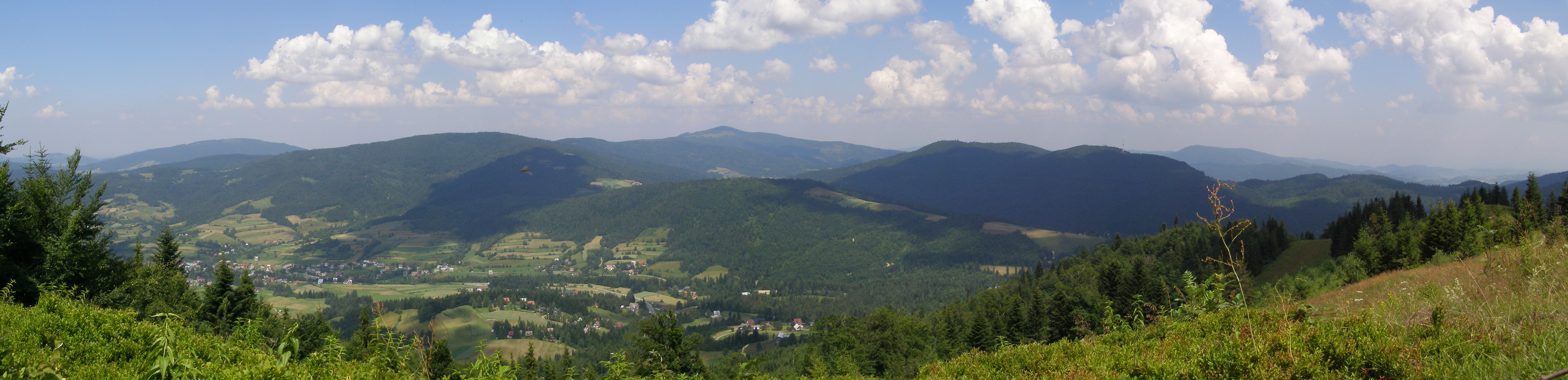 Gorce - view from Jaworzynka meadow to the Mszanka valley and Beskid Wyspowy